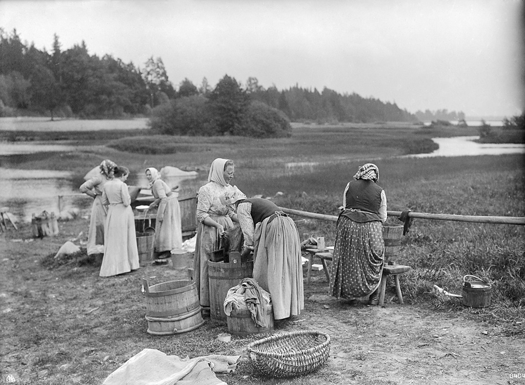 Washerwomen by a lake, somewhere in Sweden. Tvätterskor vid en sjö, någonstans i Sverige. Parish (socken): Unknown Province (landskap): Unknown Municipality (kommun): Unknown County (län): Unknown Photograph by: Unknown or Salfon Almquist. Atelier S. Almquist Date: 1910-1919 Format: Cliché, glass plate with text Persistent URL: Read more about the photo database (in english)